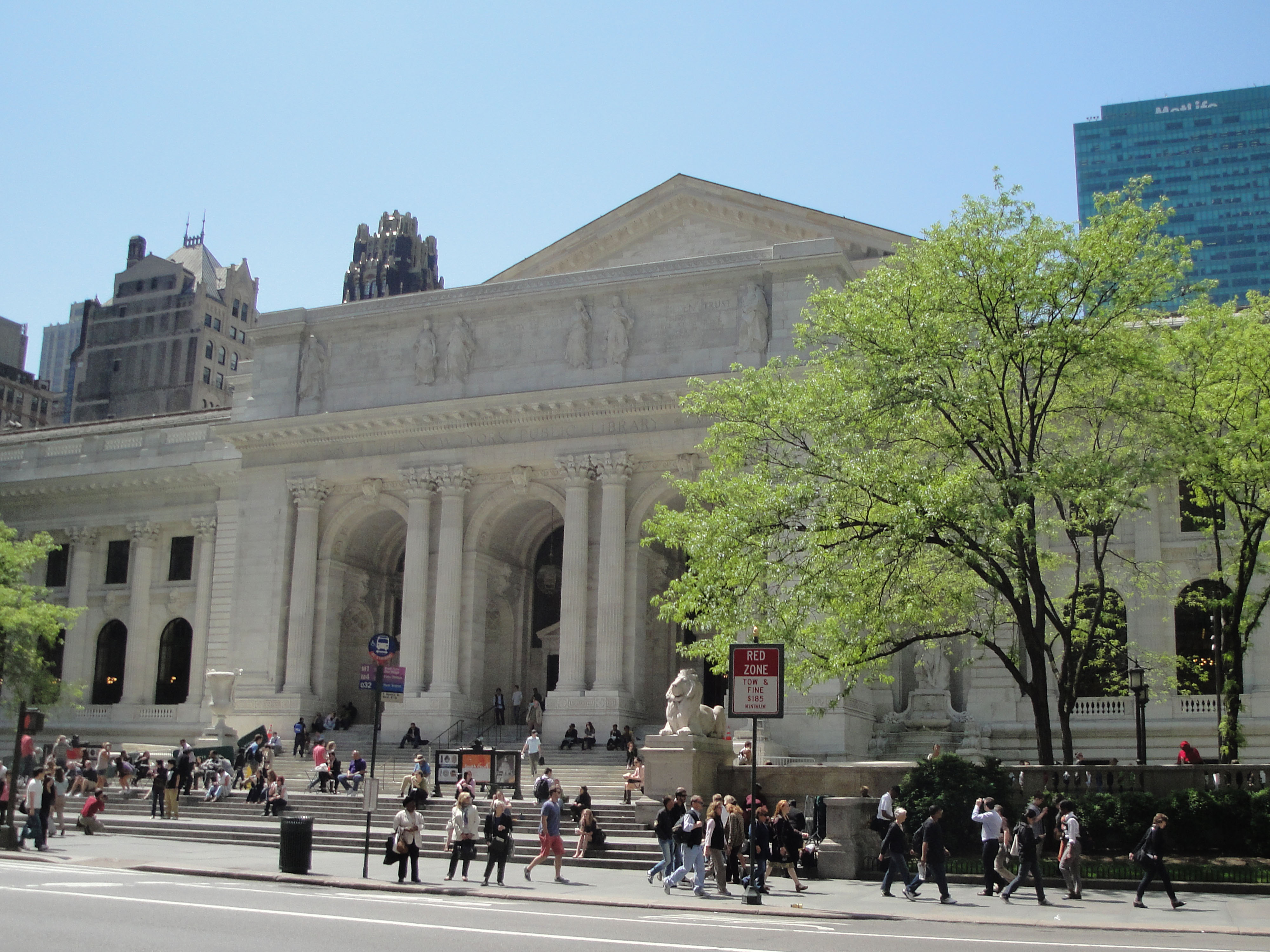 The Stephen A. Schwarzman Building of the New York Public Library, more widely known as the Main Branch or simply as "the New York Public Library" in May 2011.